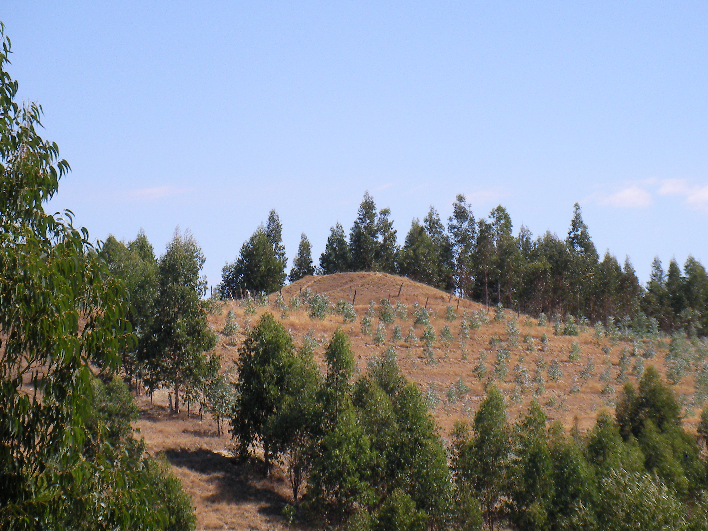 Foto of a cuel in Puren's valley, Chile